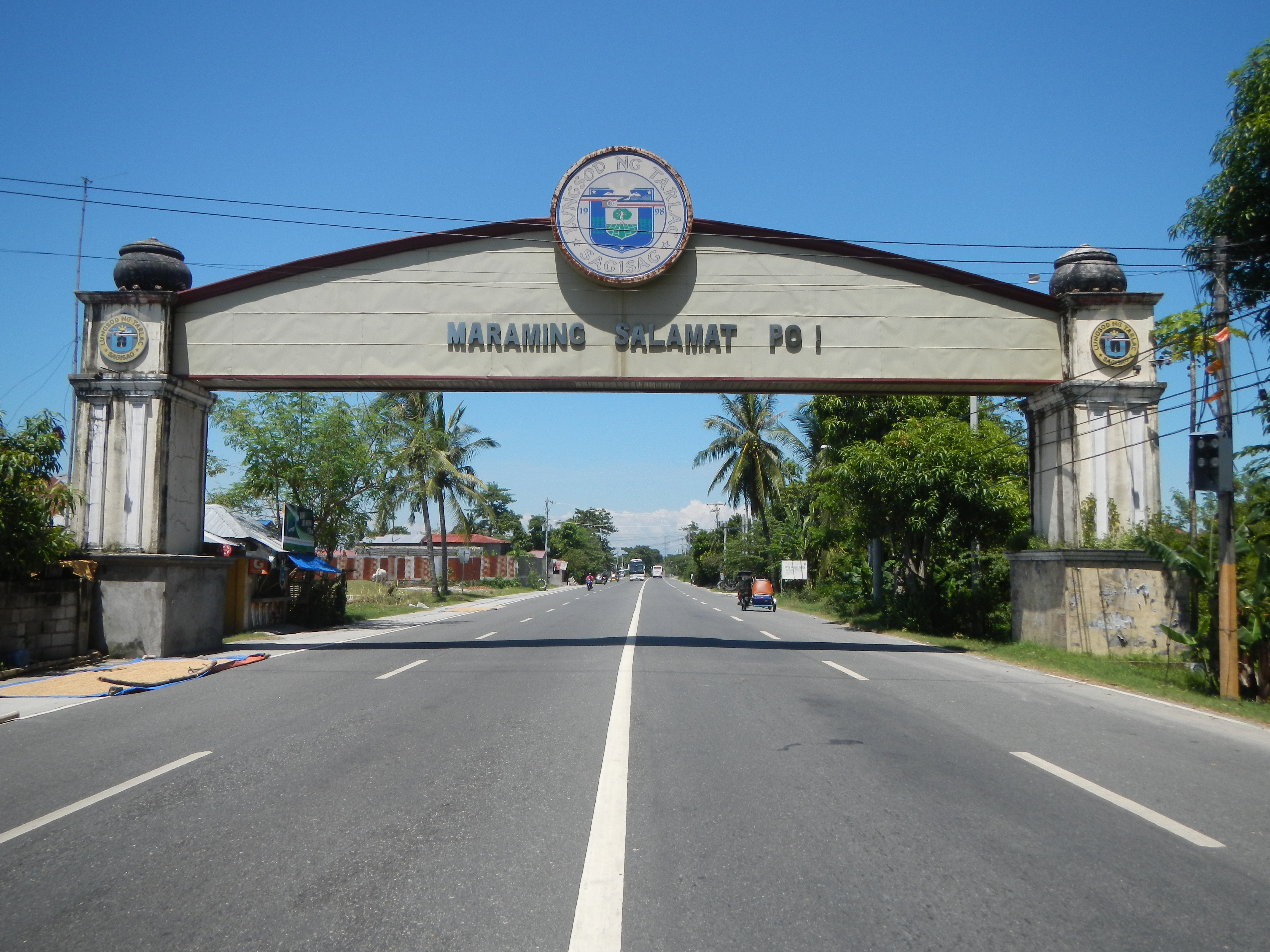 Tarlac City Welcome Arch in Gerona, Tarlac - along MacArthur Highway or Manila North Road, is specifically located in between a) Barangay Santa Cruz, Tarlac City, Tarlac Province and b) Barangays Parsolingan, Amacalan, [1] and Salapungan, Gerona, Tarlac.